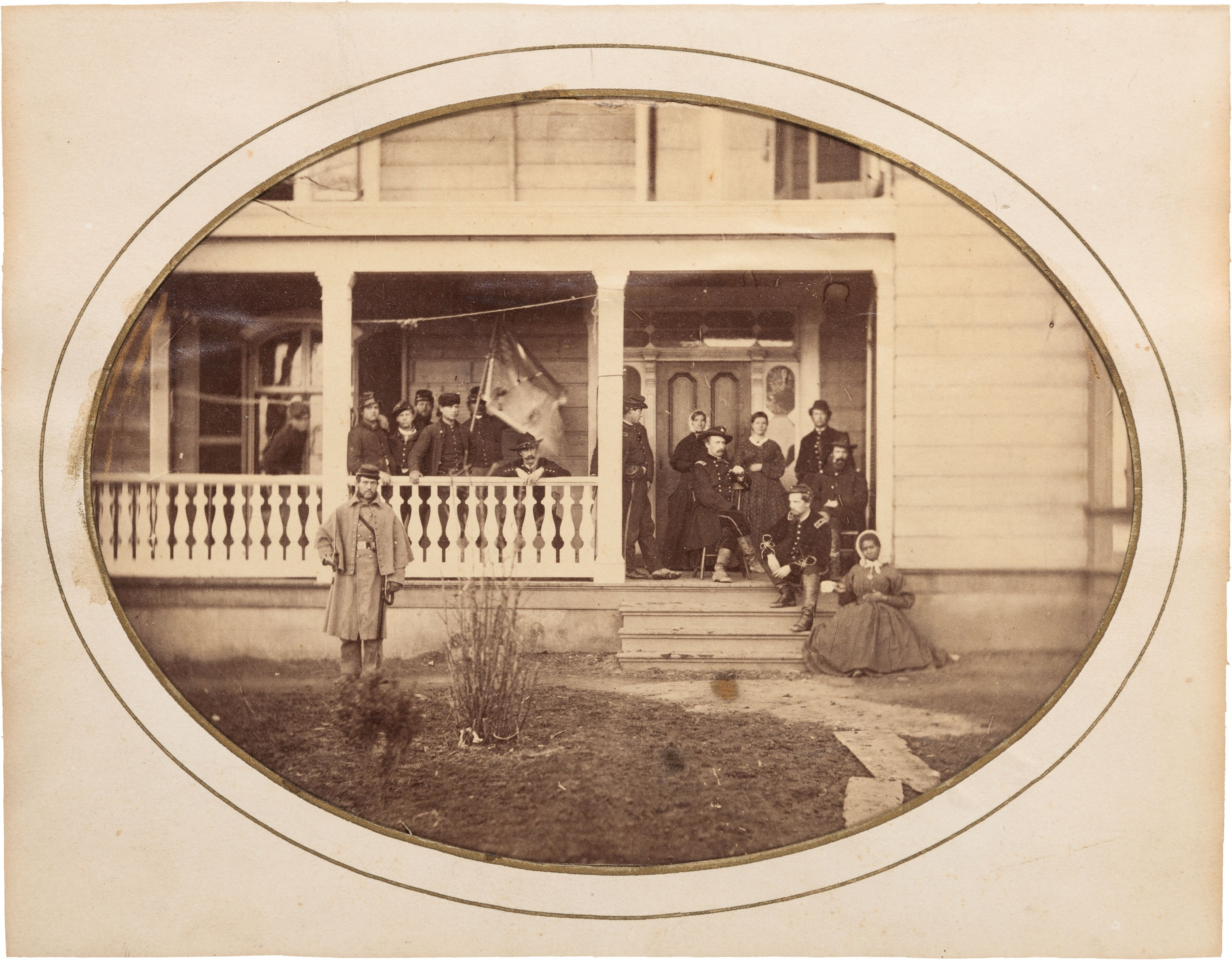 Custer is shown seated, surrounded by his staff, his personal flag waving at his right. The image was taken at the headquarters of the Michigan Cavalry Brigade at Stevensburg, Virginia, at the house known as "Clover Hill"